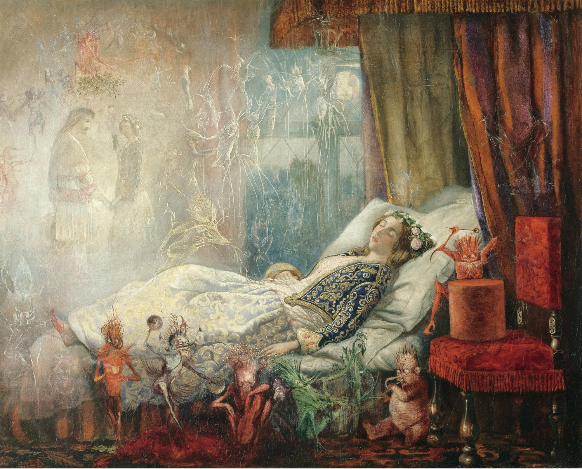 John Anster Fitzgerald - Dreams